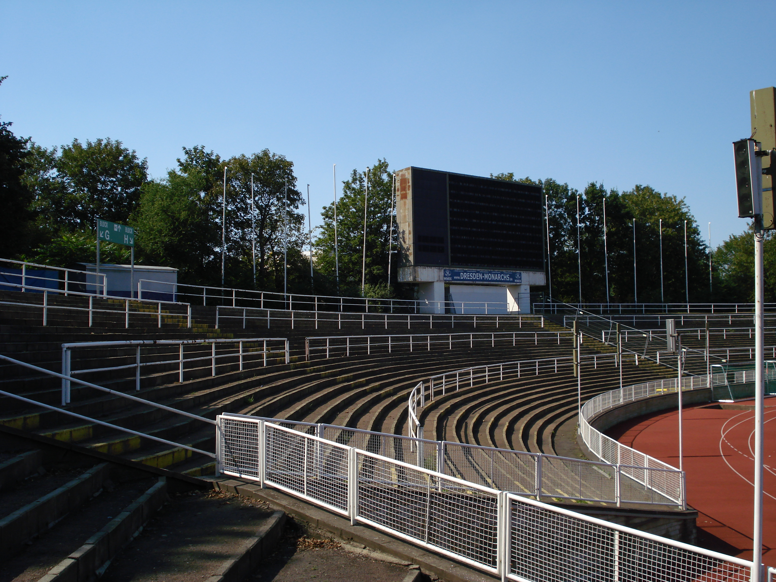 The terrain of the Sportforum Dresden („Ostragehege")